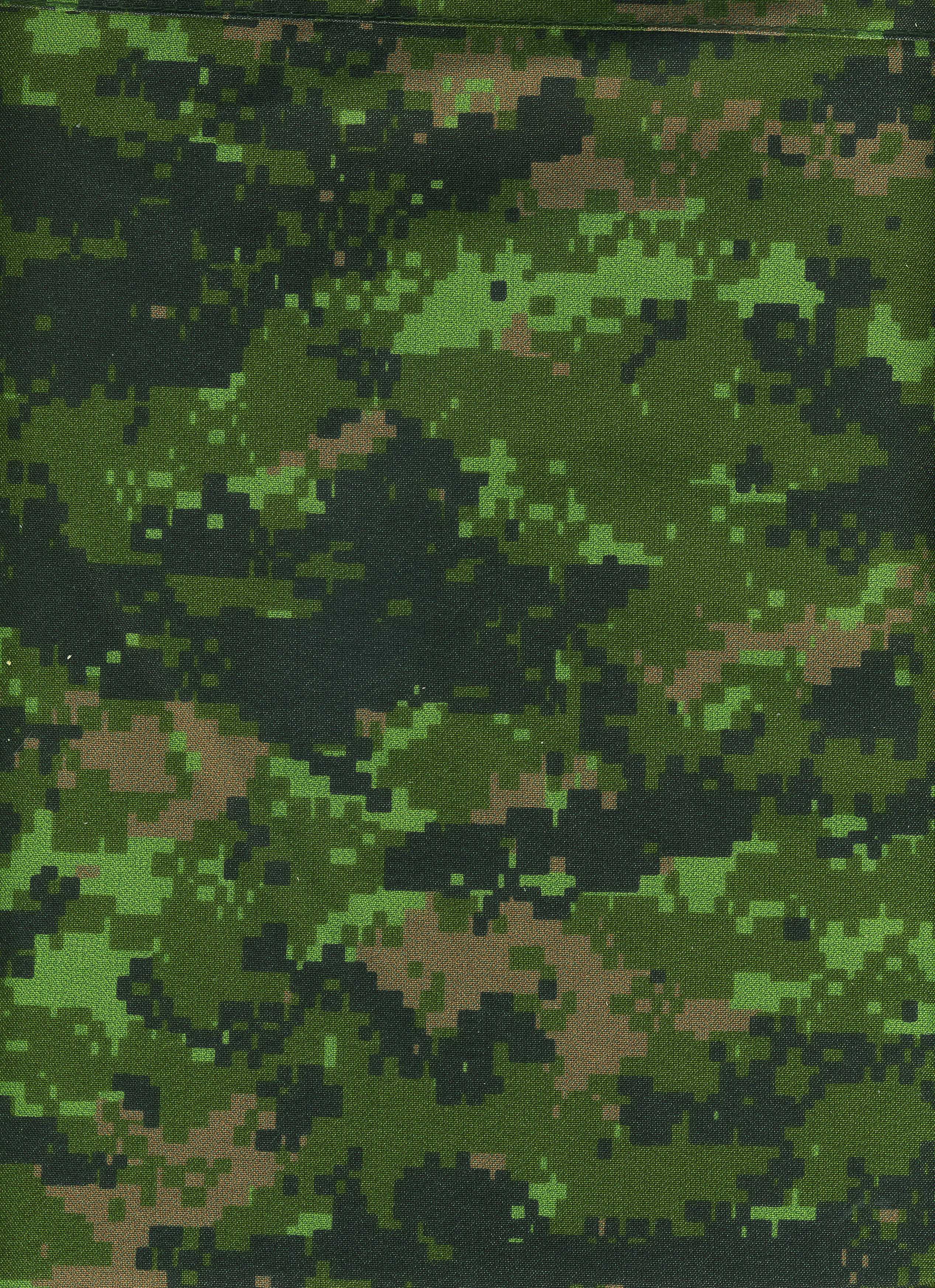 Scan of Temperate Woodland CadPat fabric.